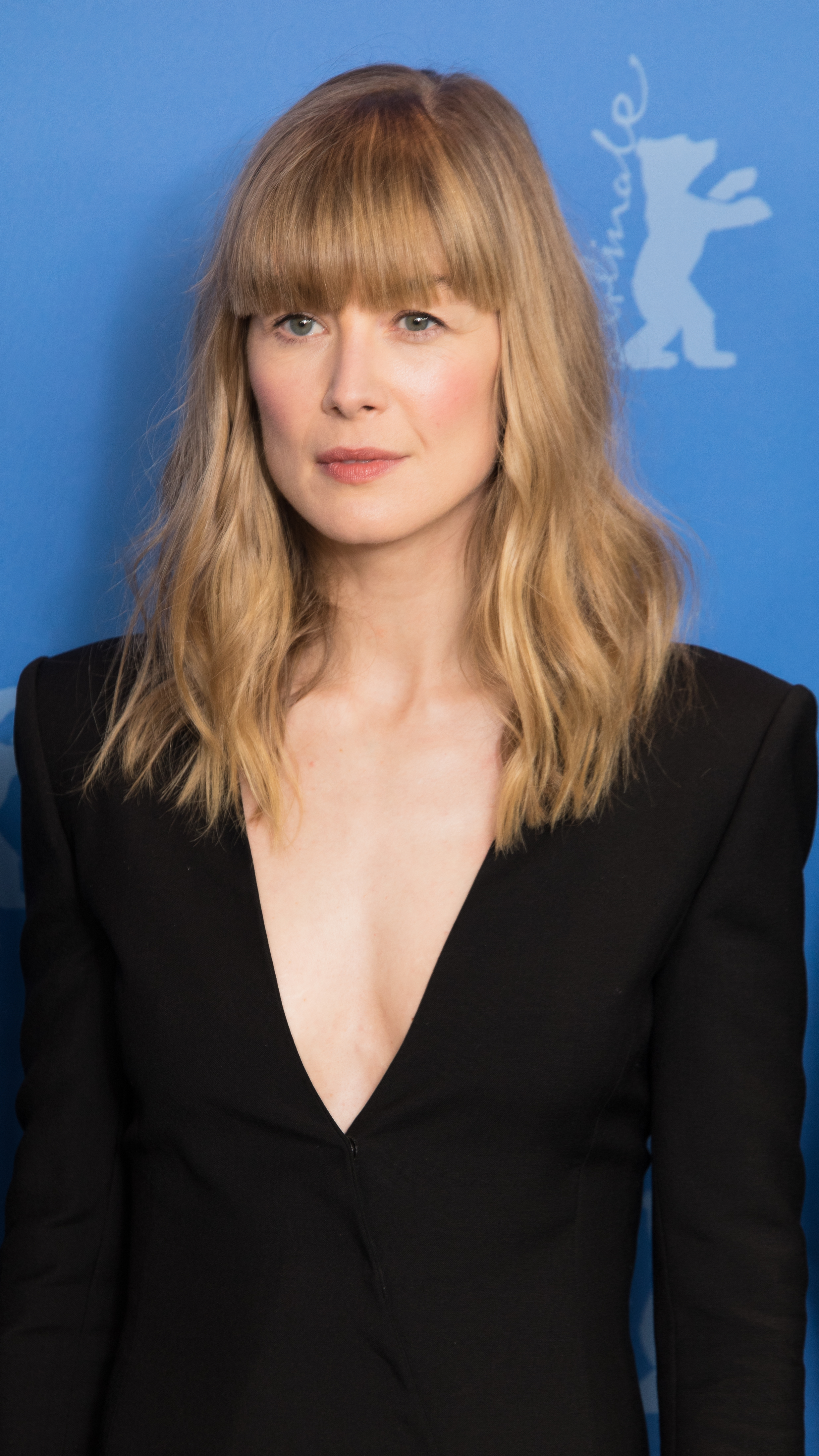 Rosamund Pike at the Berlinale 2018